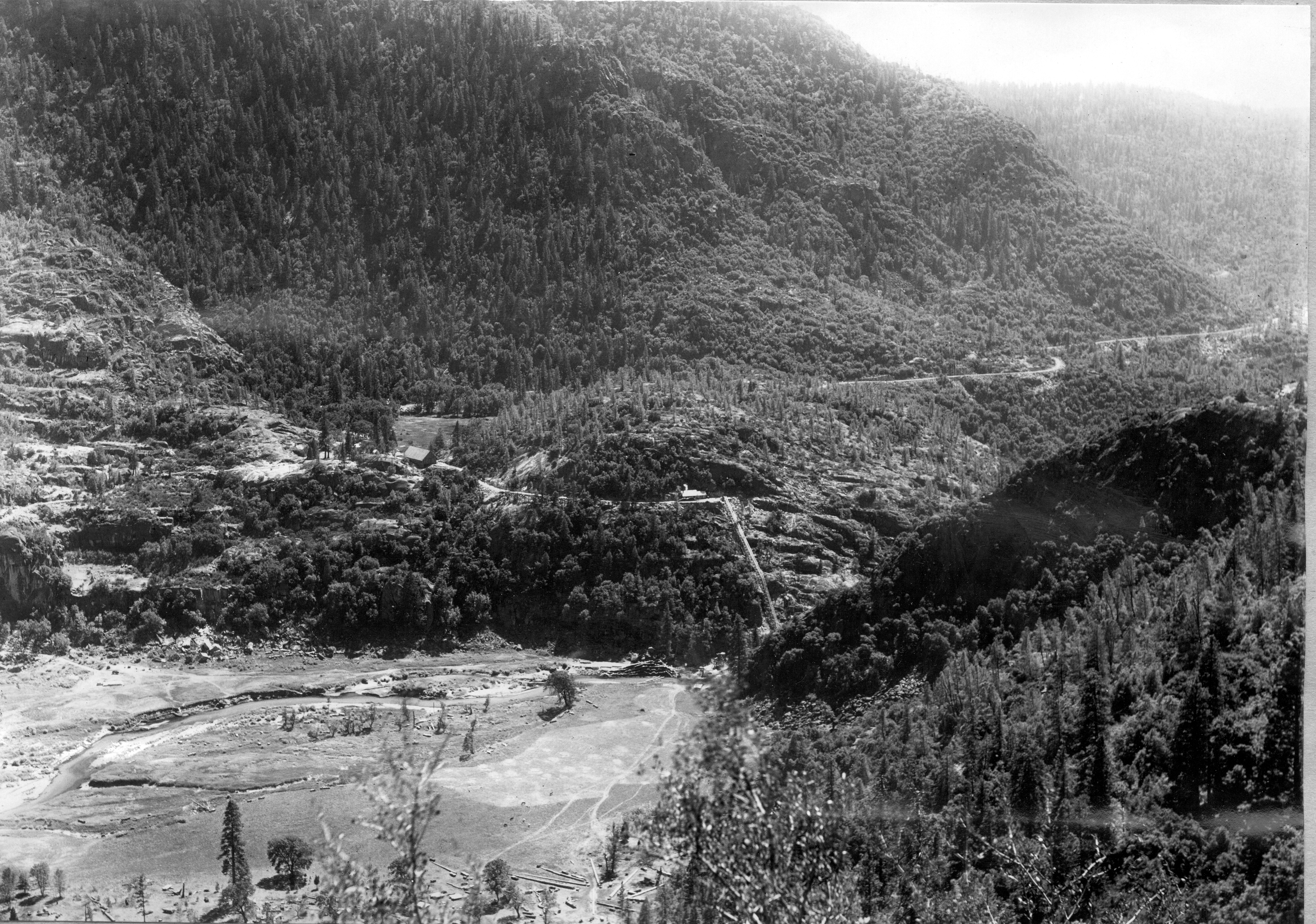 Yosemite National Park, California. Outlet of Hetch Hetchy Valley and site of a dam to be constructed for the water supply of San Francisco.